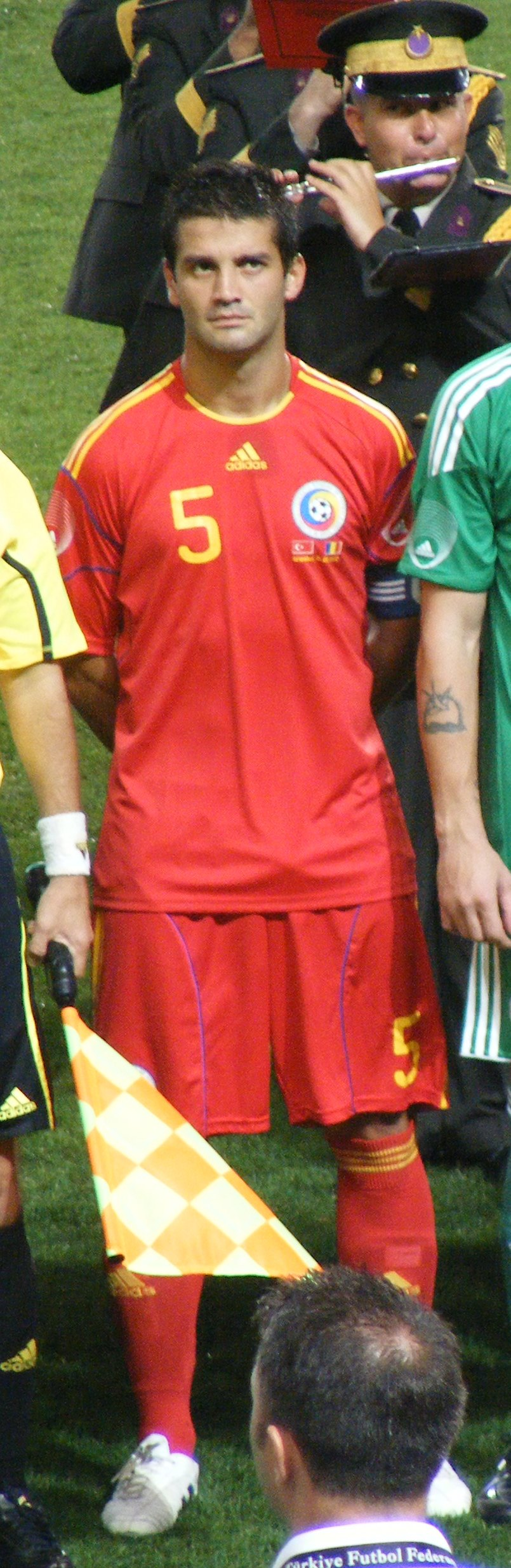 Chivu in national jersey at match vs Turkey in 11st Aug 2010, Wednesday at Fenerbahce Stadium, Istanbul